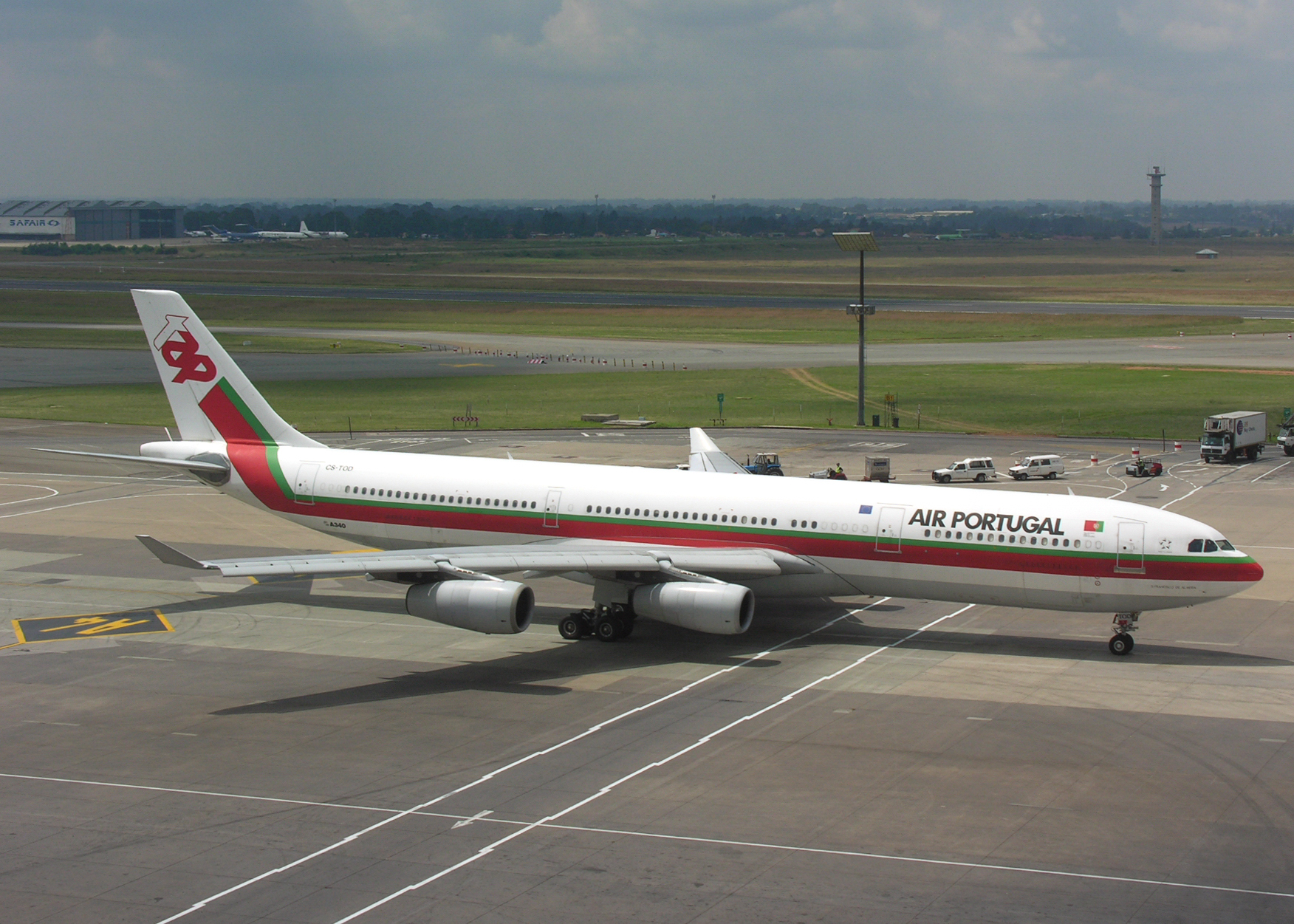 South Africa, TAP Airbus A340-312 CS-TOD taxiing at Johannesburg's O.R. Tambo International Airport